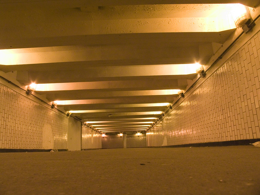 Underpass in Moscow, under the Andrew Sakharov avenue